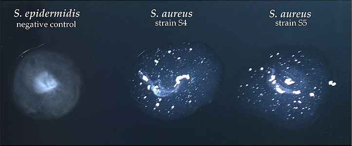 Negative coagulase test in Staphylococcus epidermidis (left) and positive coagulase tests in Staphylococcus aureus (centre and right).